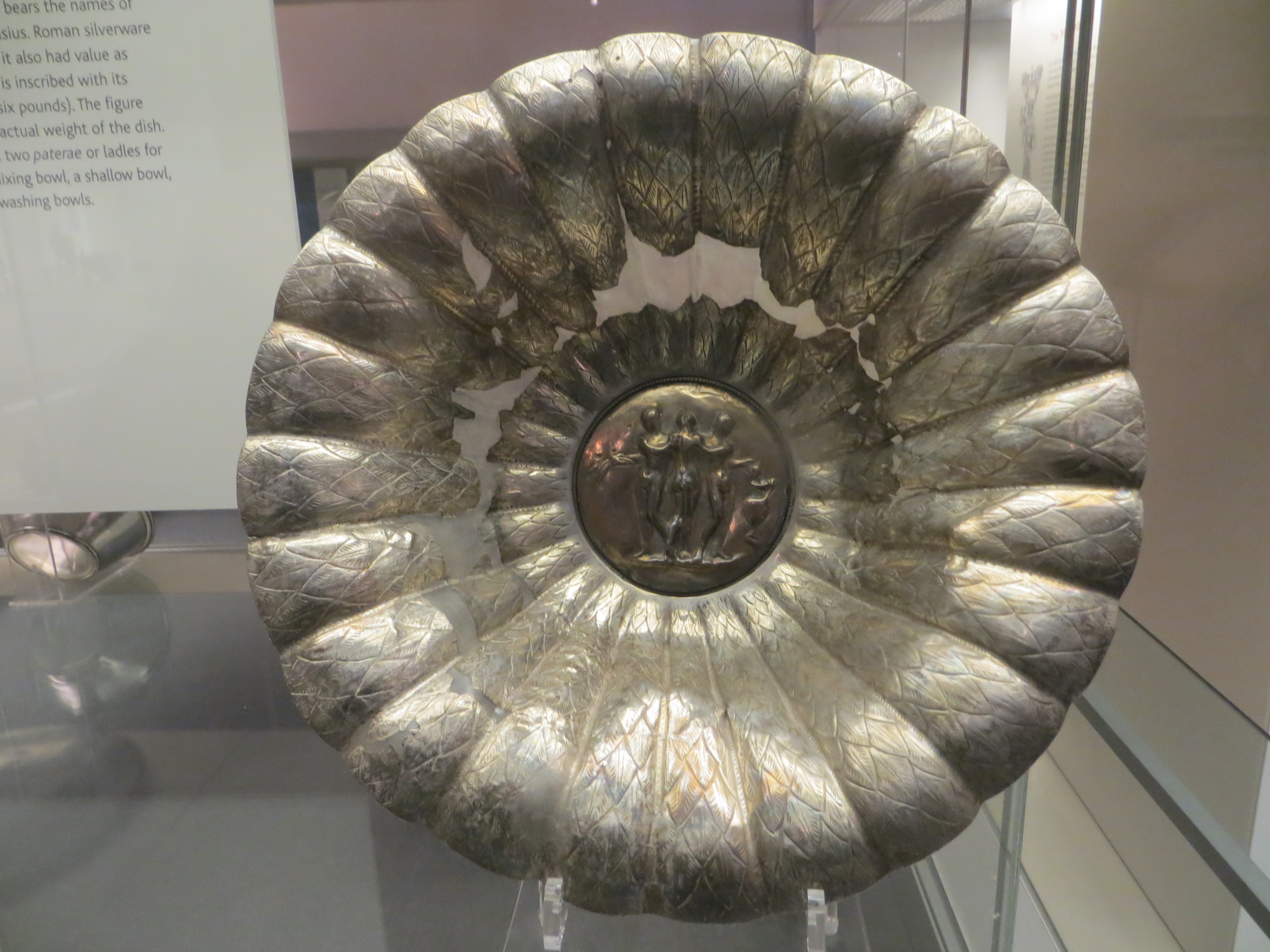 Chatuzange Plate in British Museum